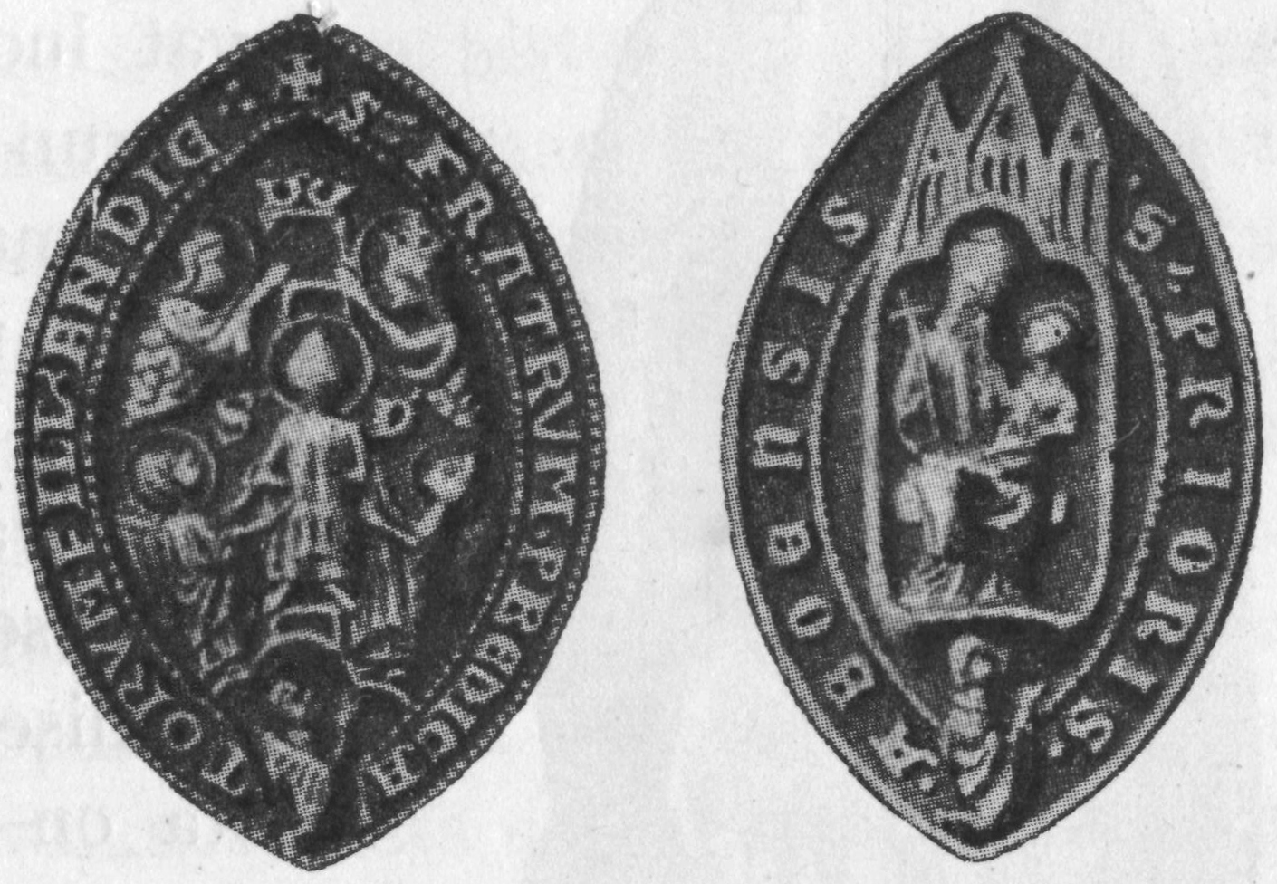 The seals of the Dominican monastery in Turku and its prior.